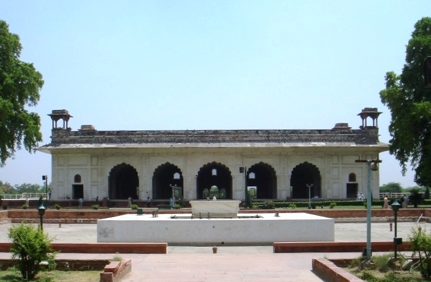 Rang Mahal at the Red Fort. Picture taken by Kaiser Tufail during visit to Delhi, 29-4-08